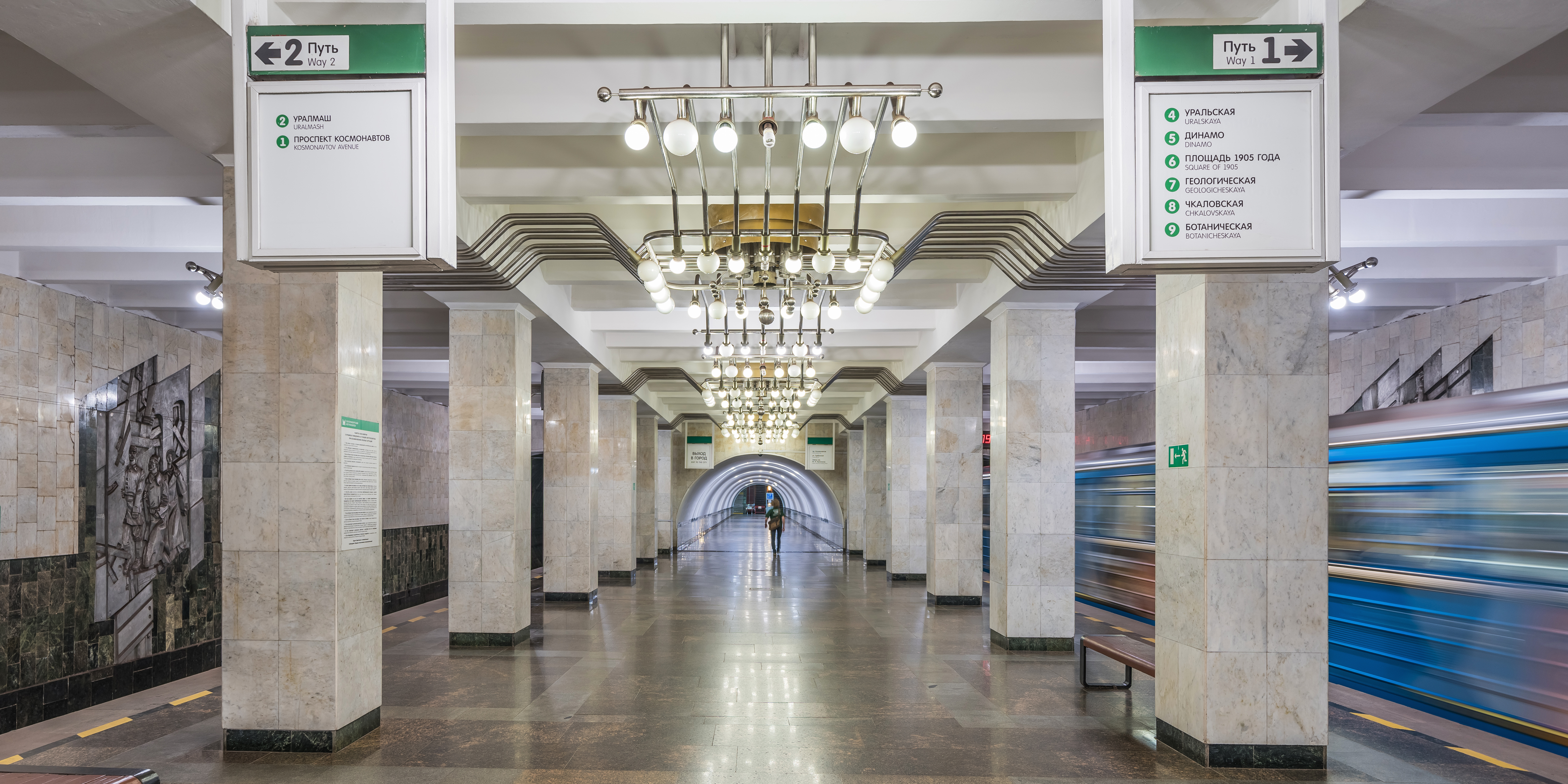 Mashinostroiteley metro station in Ekaterinburg, Russia